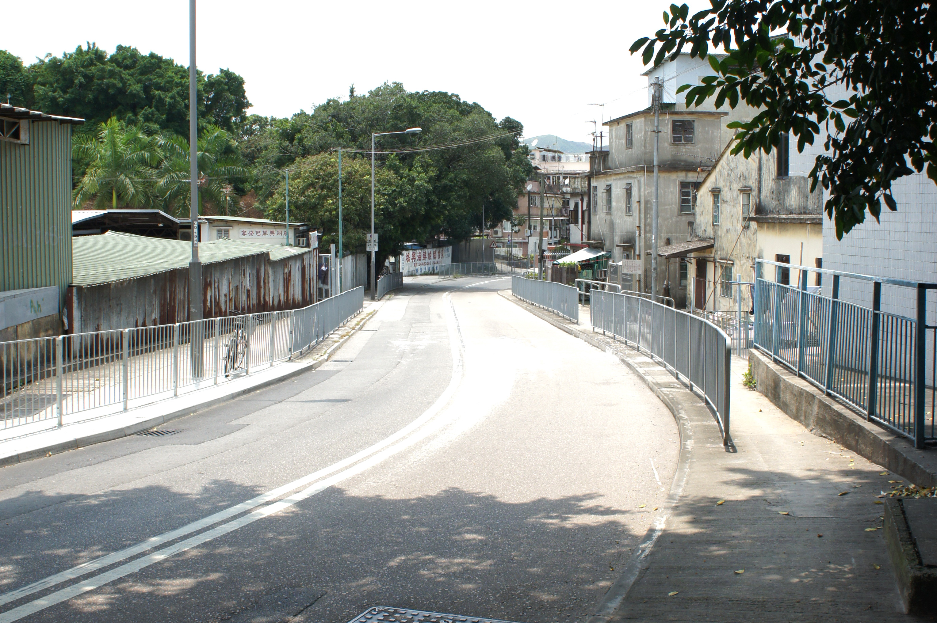 Ping Ha Road, Yuen Long, Hong Kong.